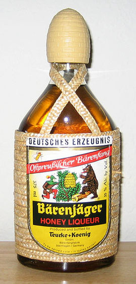 A bottle of Bärenjäger.